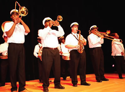 The Treme Brass Band brings a little of New Orleans to the Washington, DC audience during the 2006 NEA National Heritage Fellows concert.